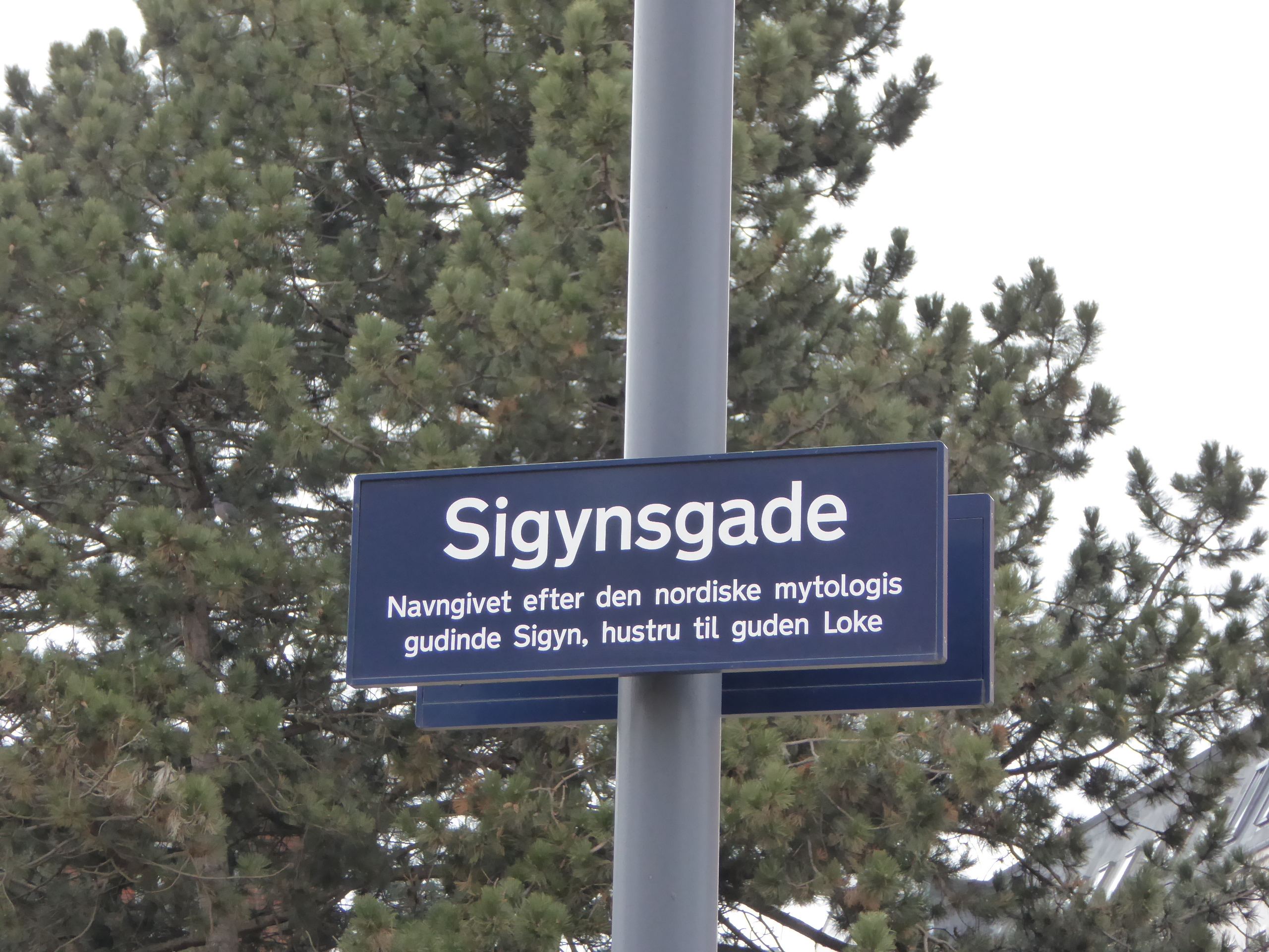 Street sign of Sigynsgade in Nørrebro in Copenhagen. The sign tells that Sigyn was the wife of the god Loke in the Nordic Mythology.